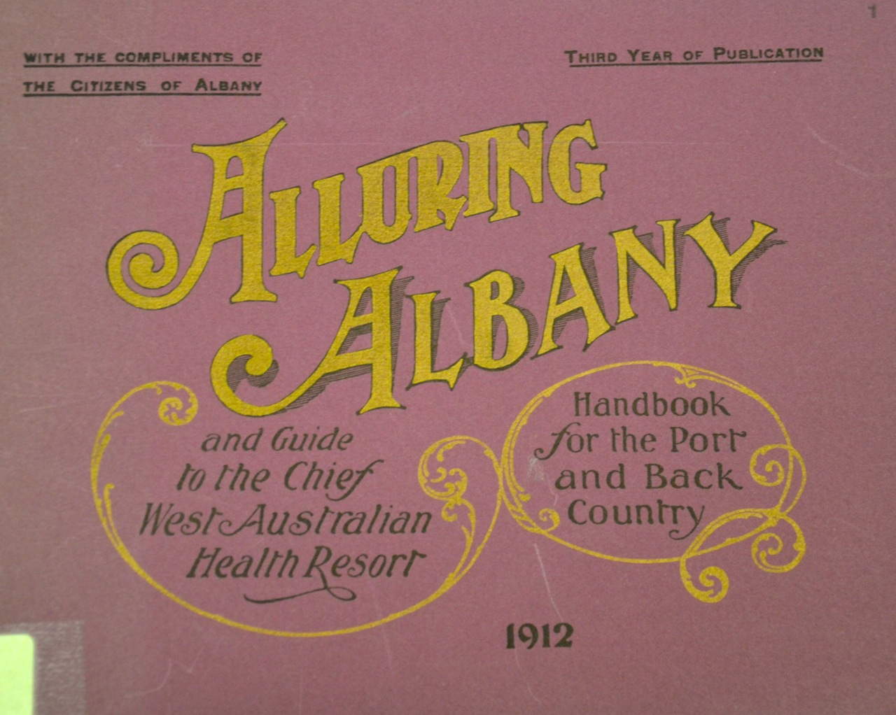 Purple cover of 1912 Alluring Albany